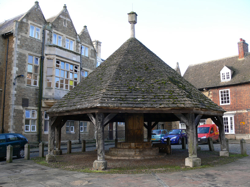 The mediaeval Buttercross in the Market Place of Oakham, Rutland, England. It is a Grade I Listed Building. The buildings behind belong to Oakham School. To the left is School House, built in 1858 on the site of late 16th-century almshouses built by the school's founder, Archdeacon Robert Johnson. To the right is Chapel Close, the school's administrative centre.